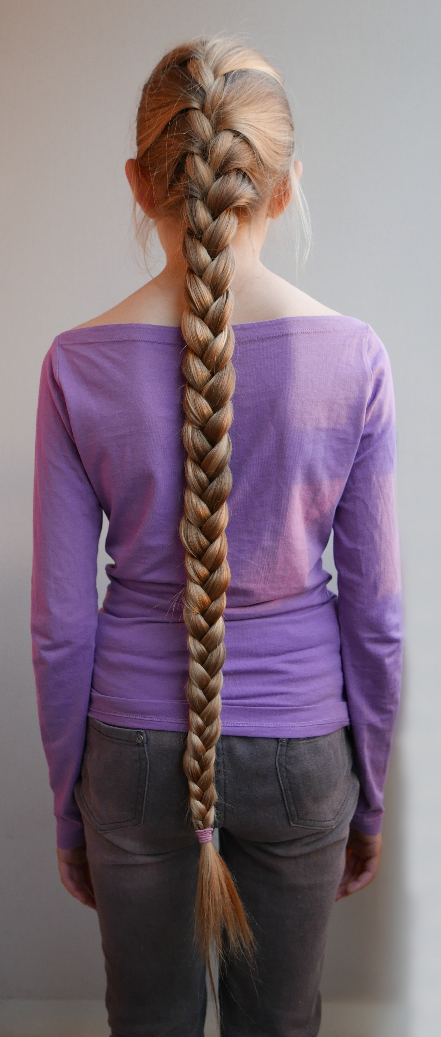 Girl with long braid (Mila Cis).